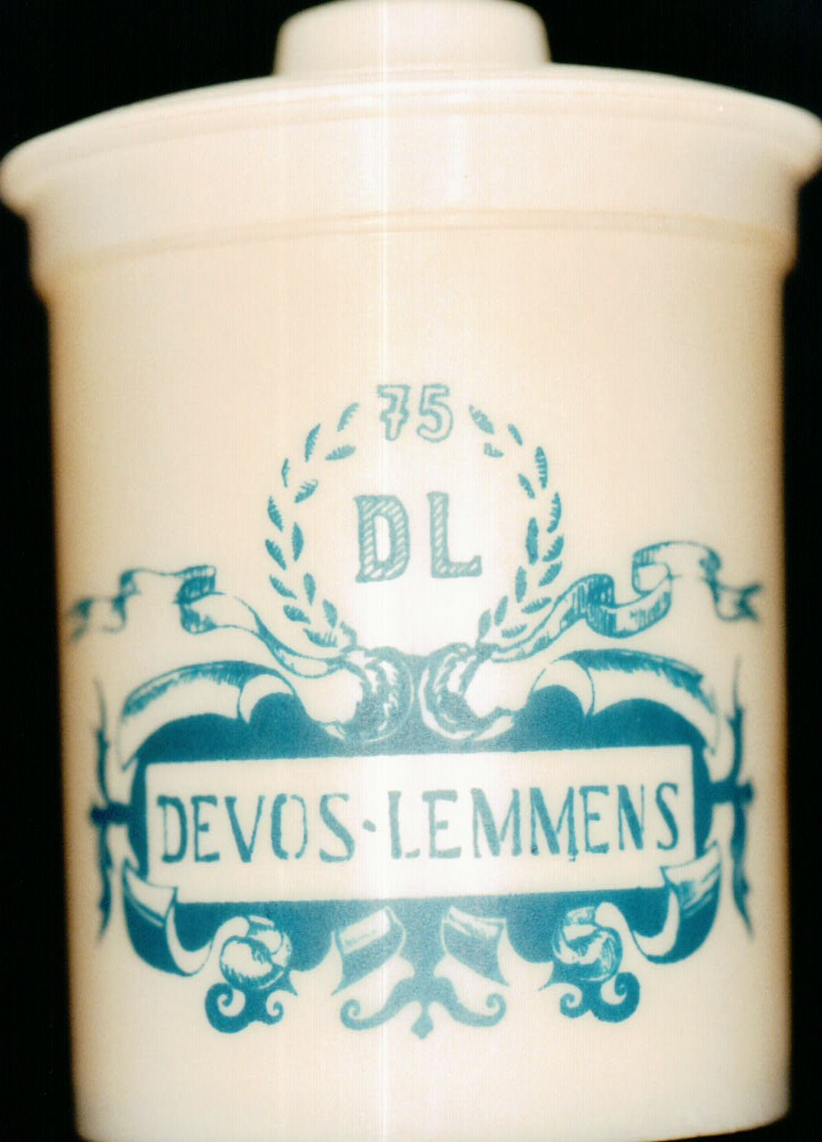 first plastic 1961